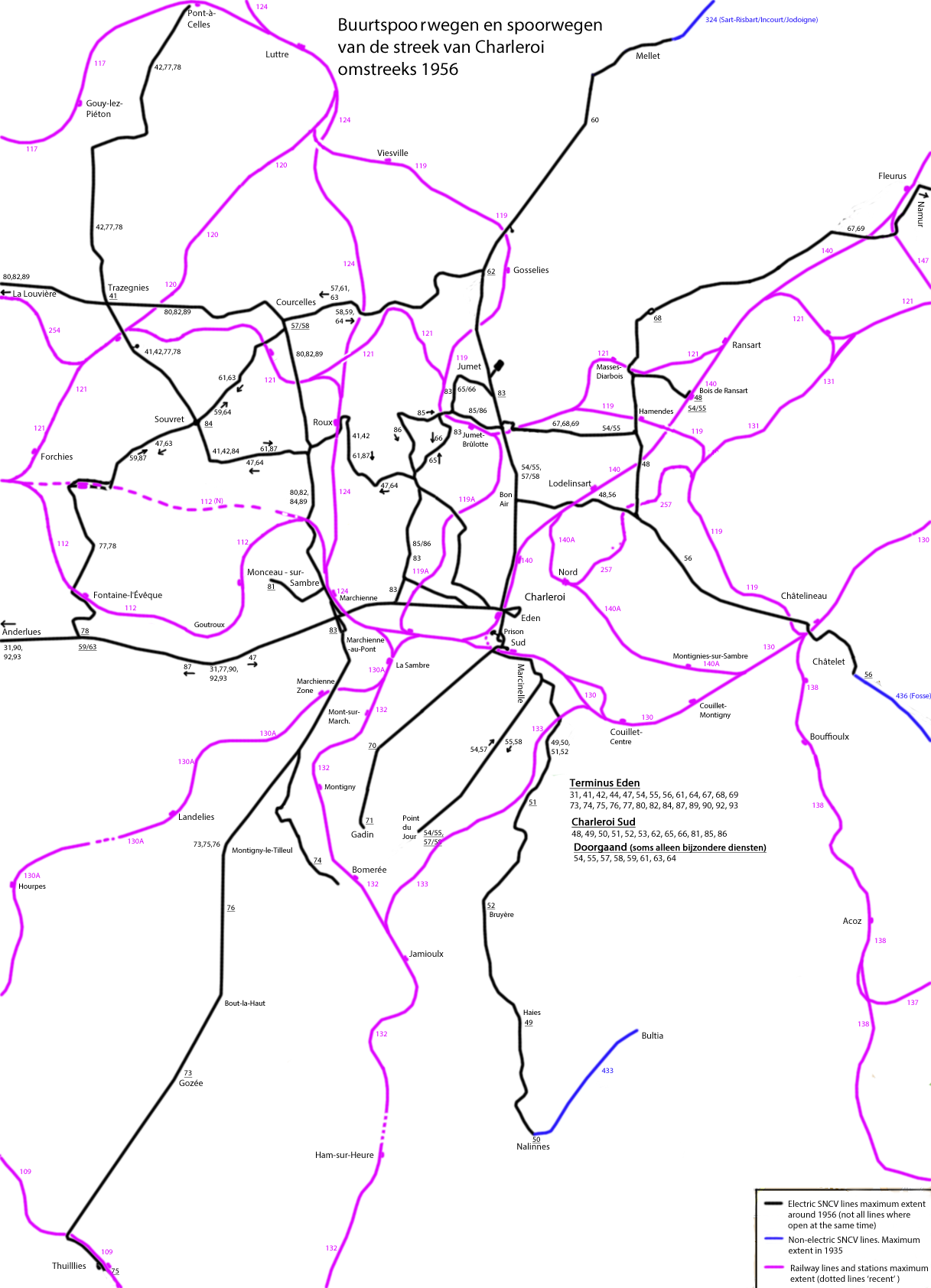 Map of the SNCV vicinal railway and SNCB railways, at the maximum extend in the Charleroi region. Around 1956.